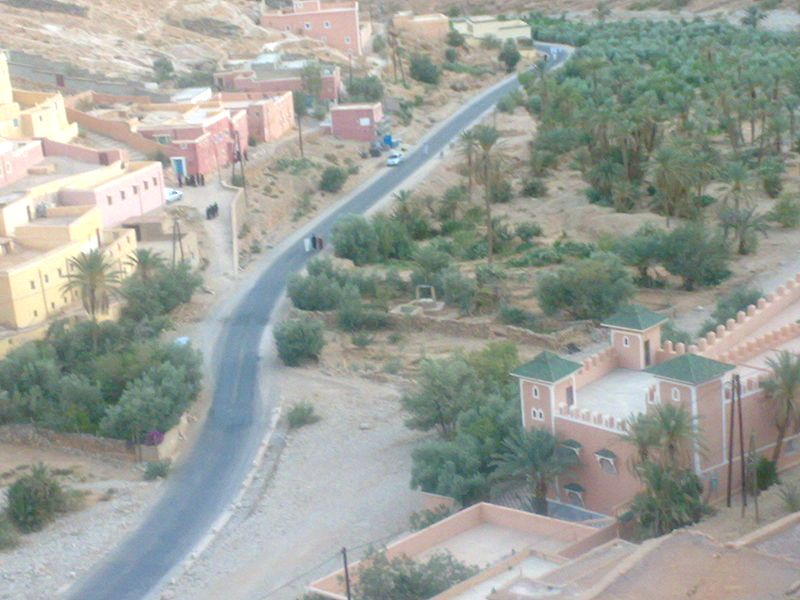 a photo of the locality of Ait Bounouh in Tafrout region Morocco.